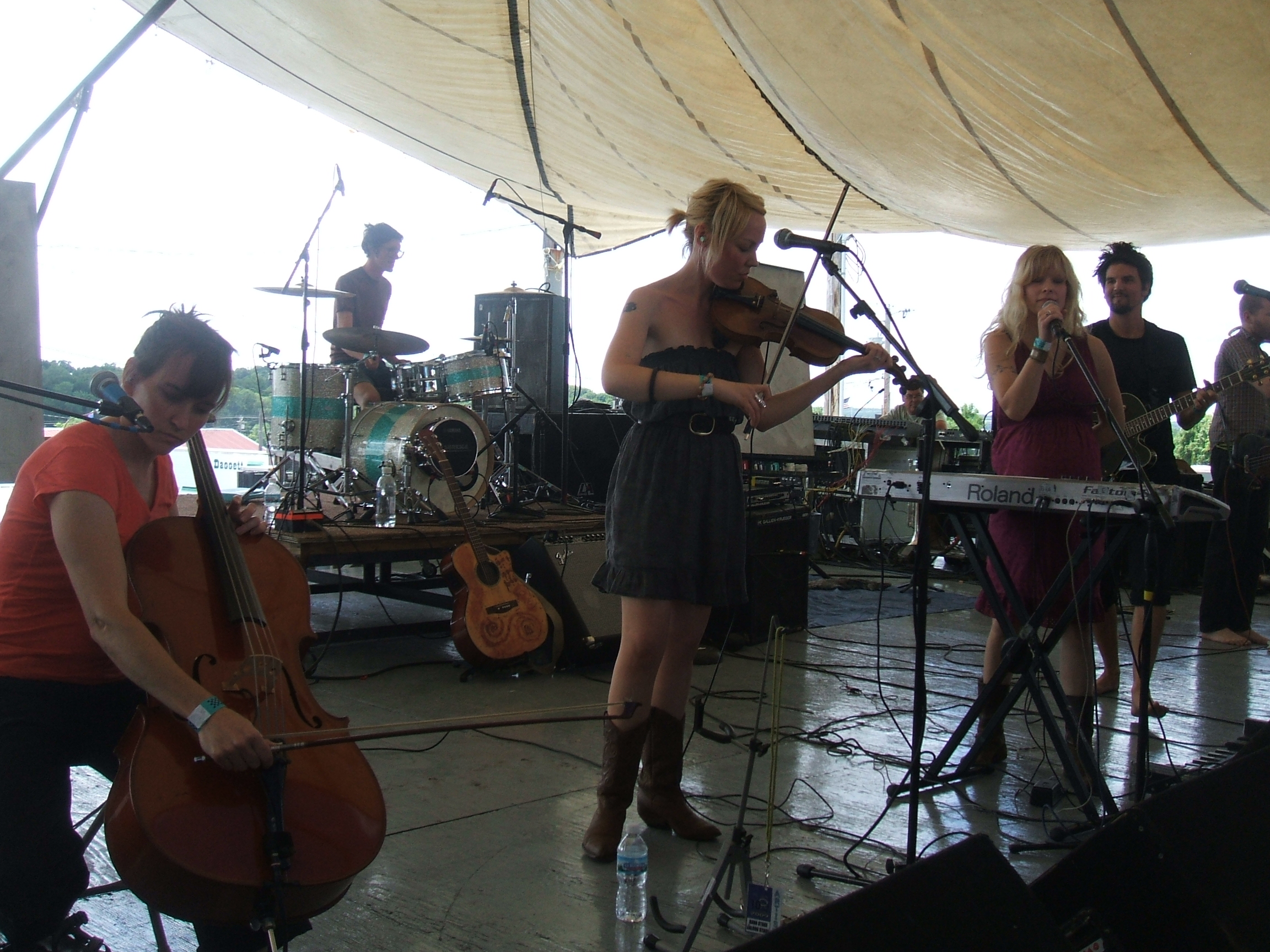 Cloud Cult performs at the 10,000 Lakes Festival in Detroit Lakes, Minnesota.